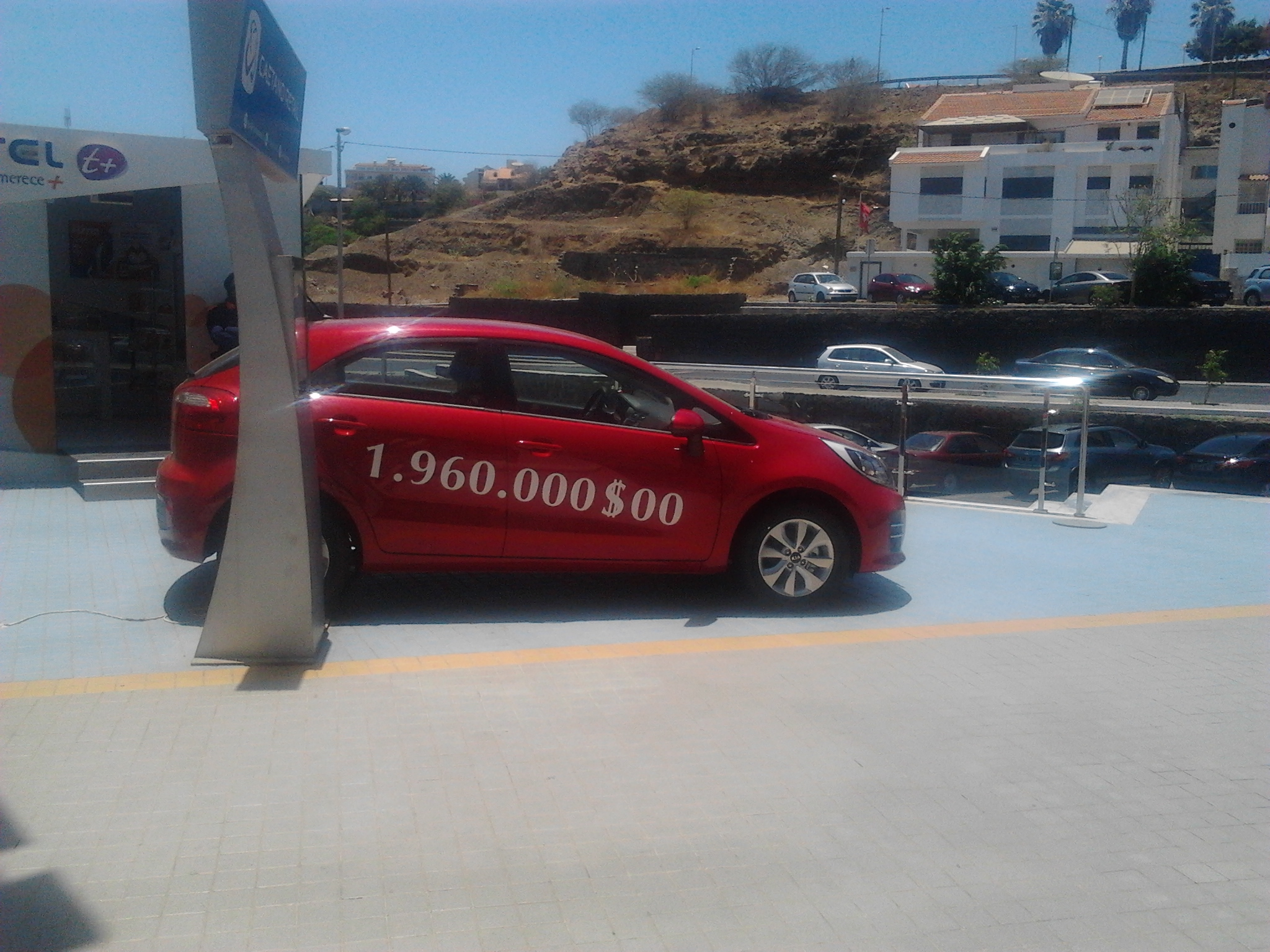 Car being sold, showing the usage of the cifrão in Cape Verde.